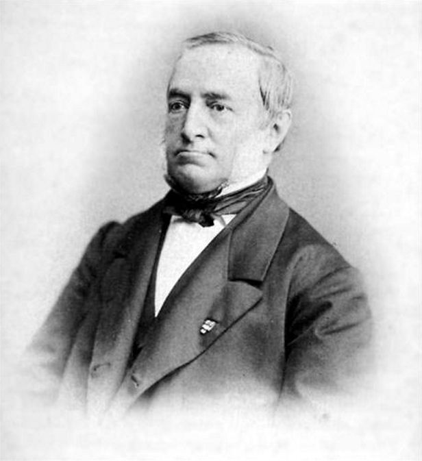 Willem Anthonie Froger